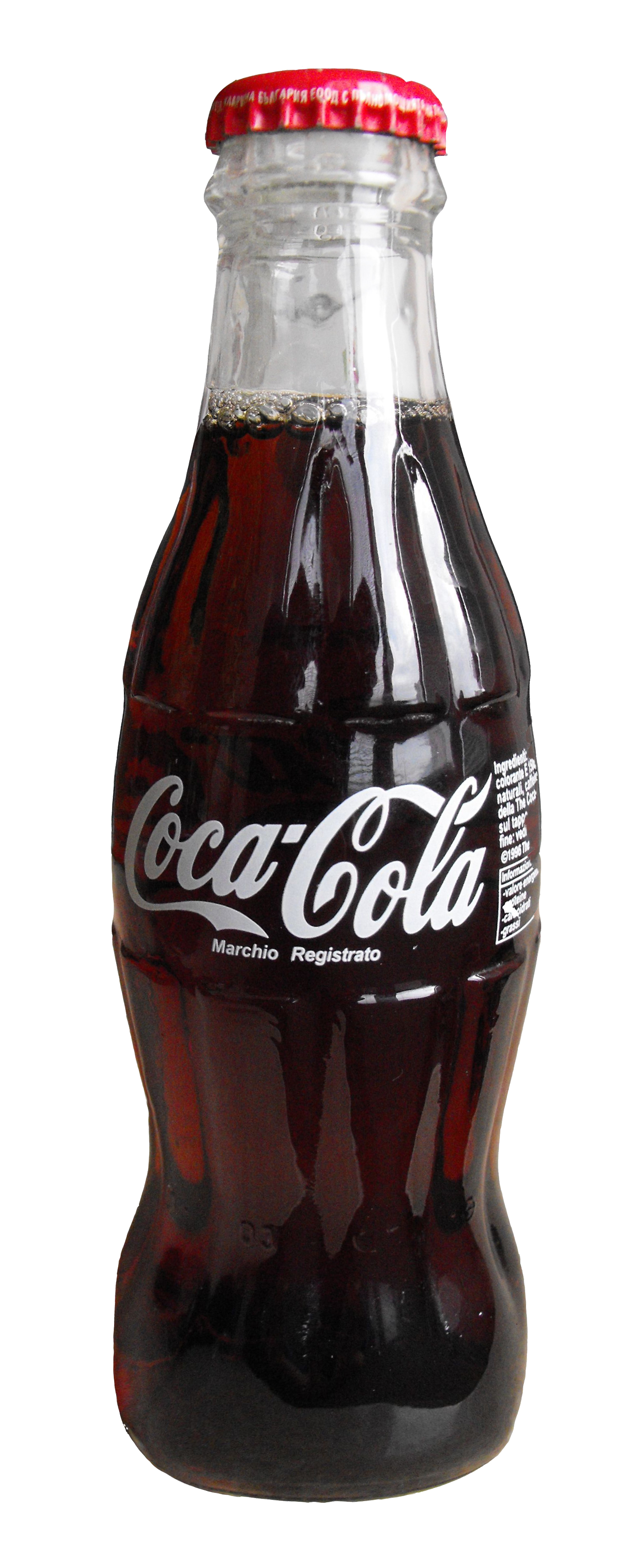 Coca-Cola glass bottle from Italy (my picture)